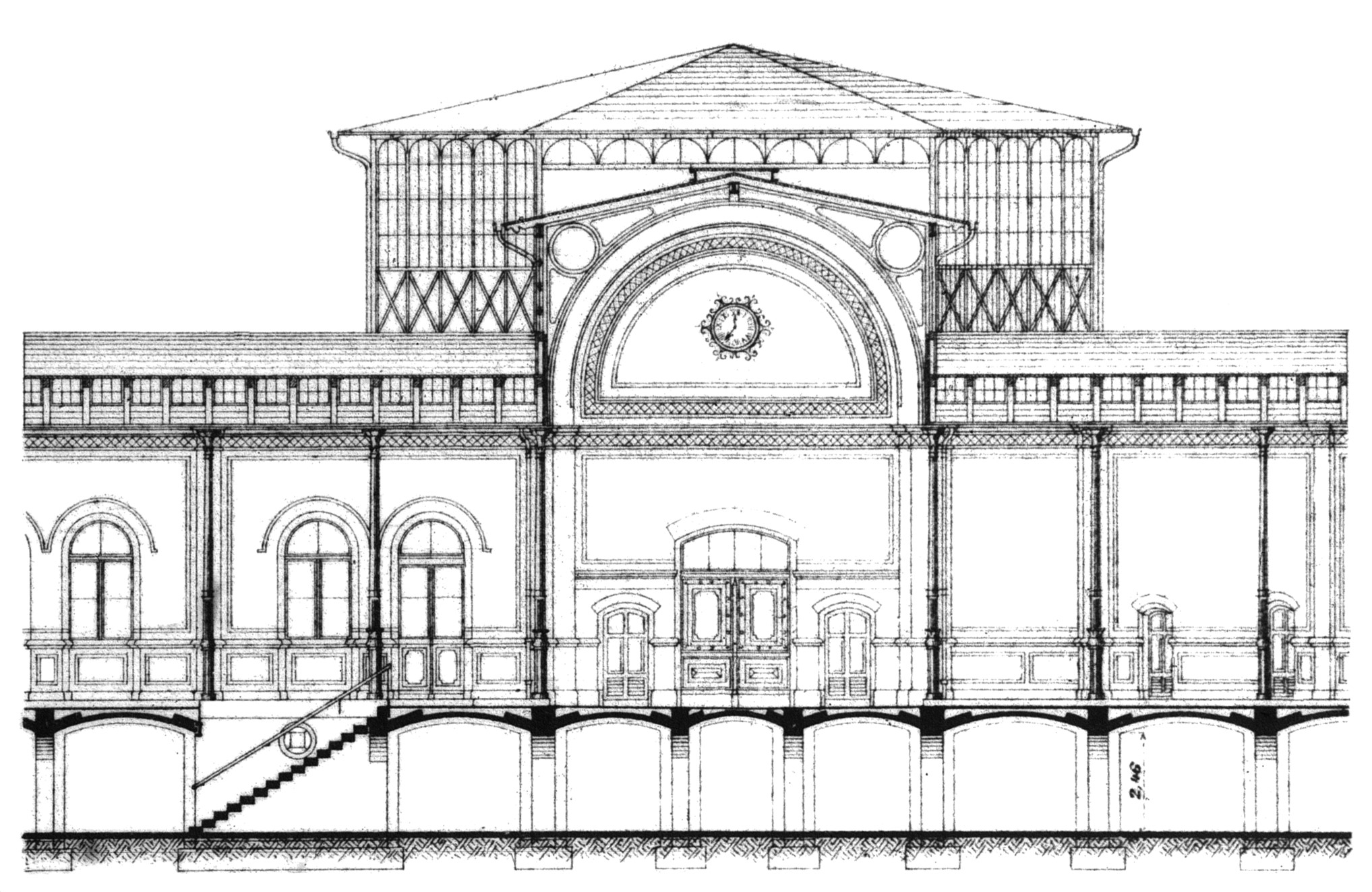 Berlin - market hall III, section